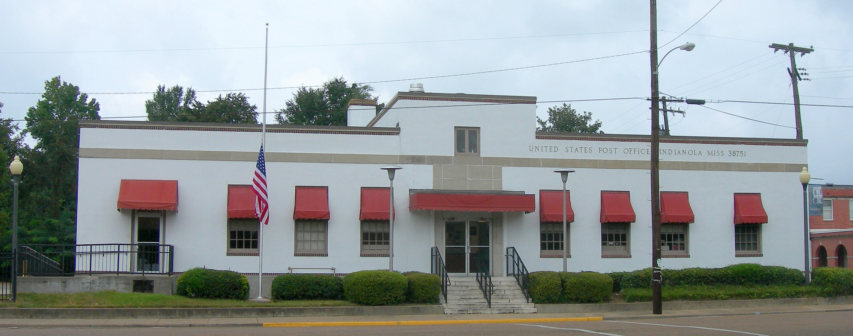 The Indianola Post Office in Indianola. A New Deal mural entitled "White Gold in the Delta" was painted by Beula Bettersworth in 1939 for this office. However, it was destroyed during post office renovations in the 1960s. In 2008, the building was named the Minnie Cox Post Office Building by an act of Congress.